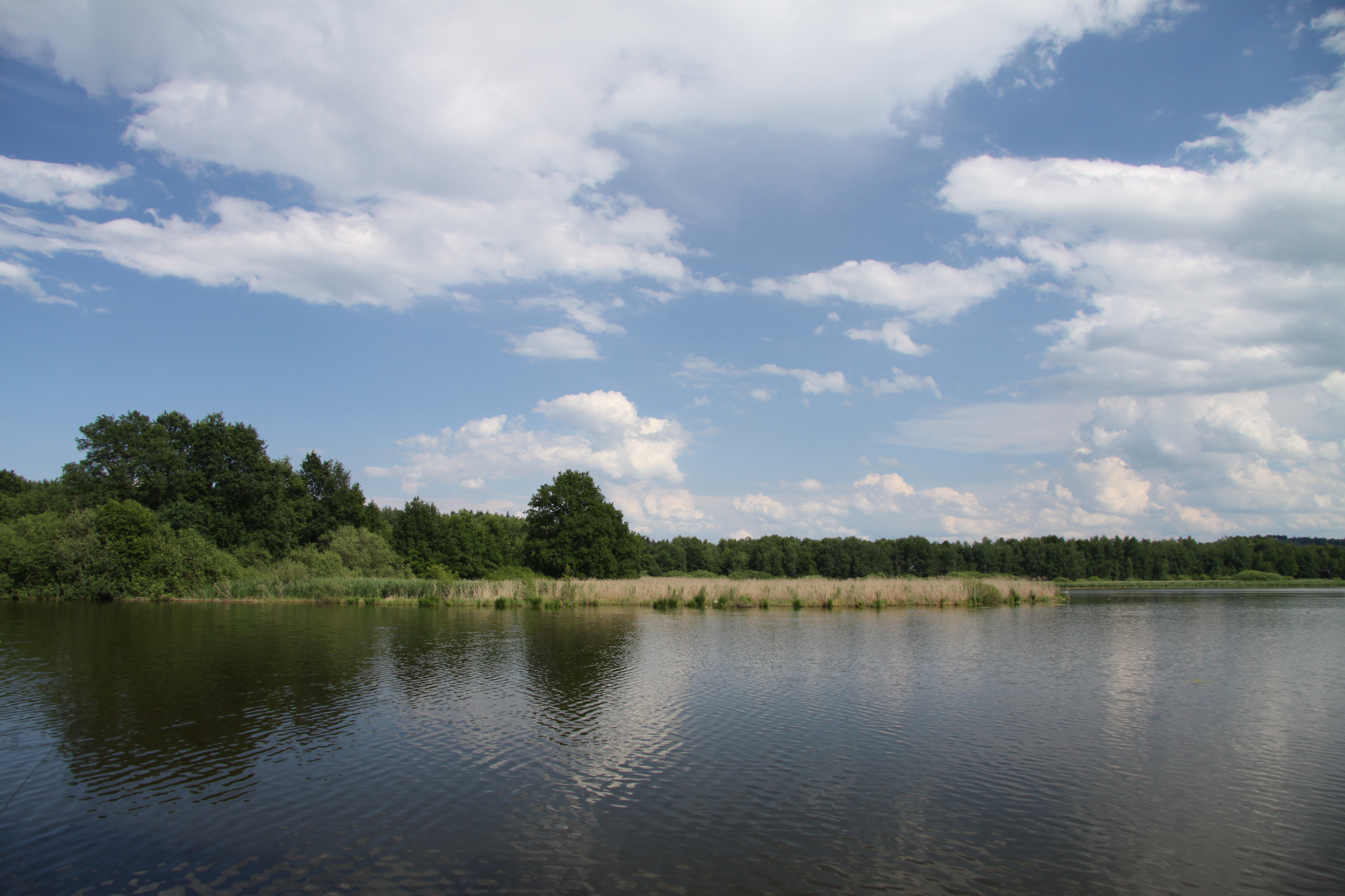 Řežabinec pond in national nature reserve Řežabinec a Řežabinecké tůně in Písek District, Czech Republic